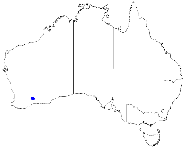 Boronia revoluta downloaded from Australasian Virtual Herbarium 10 April 2019 using This download included all the environmental overlay fields and ALA's data checking fields including "cultivated / escapee", "outside expert range for species", "latitude is negated", "coordinates are transposed", "taxon misidentified", "habitat incorrect for species", and "suspected outlier" (711 fields). Deleting occurrences for which any of the above were true, 46 specimens with coordinates were deleted.